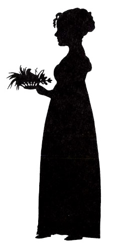 Silhoutte of Marichen Ibsen (1799-1869) as a young girl, mother of Henrik Ibsen (Marichen Altenburg)